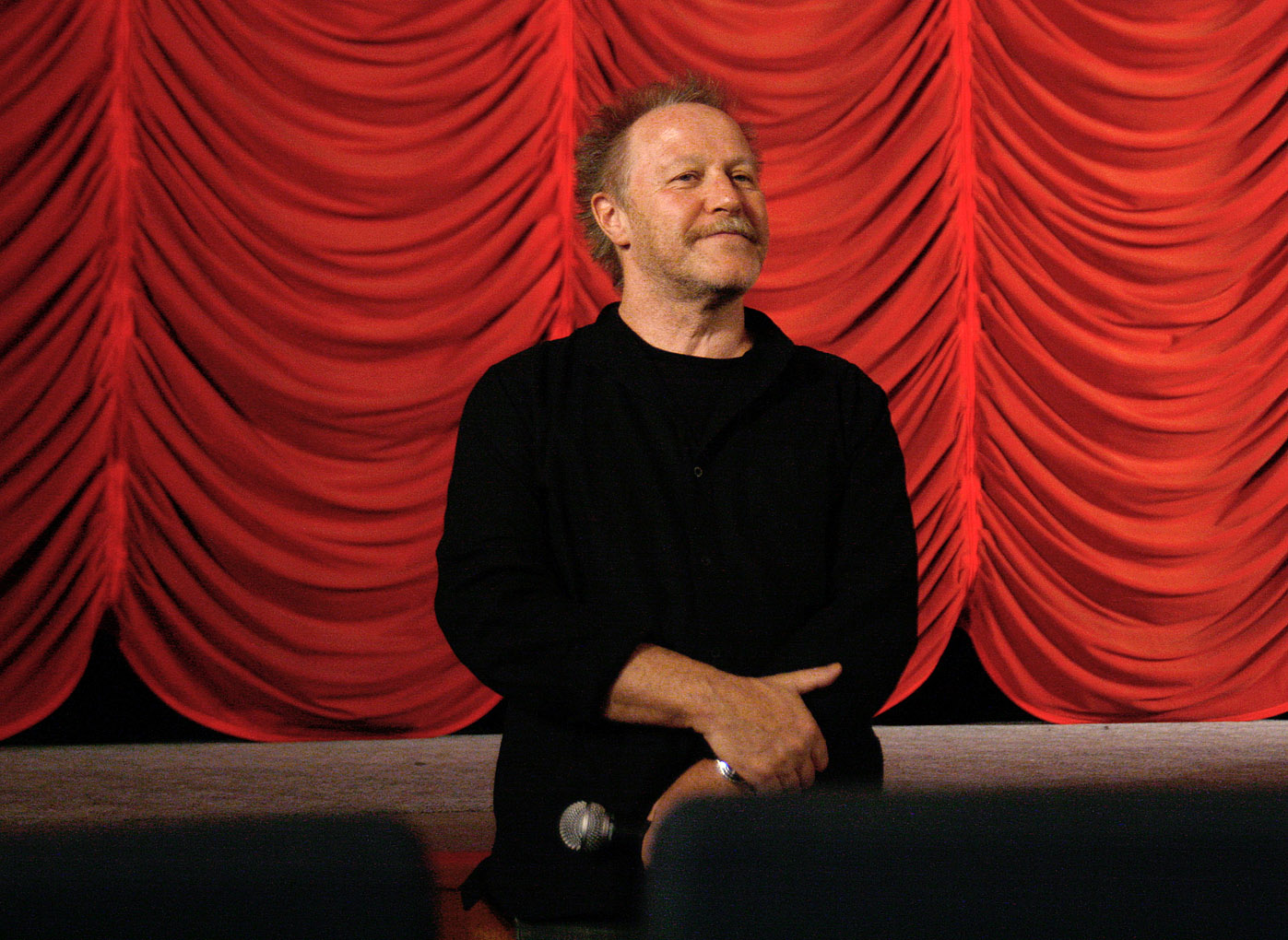 Film director Nicolas Philibert at the screening of Nénette during the Vienna International Film Festival 2010.